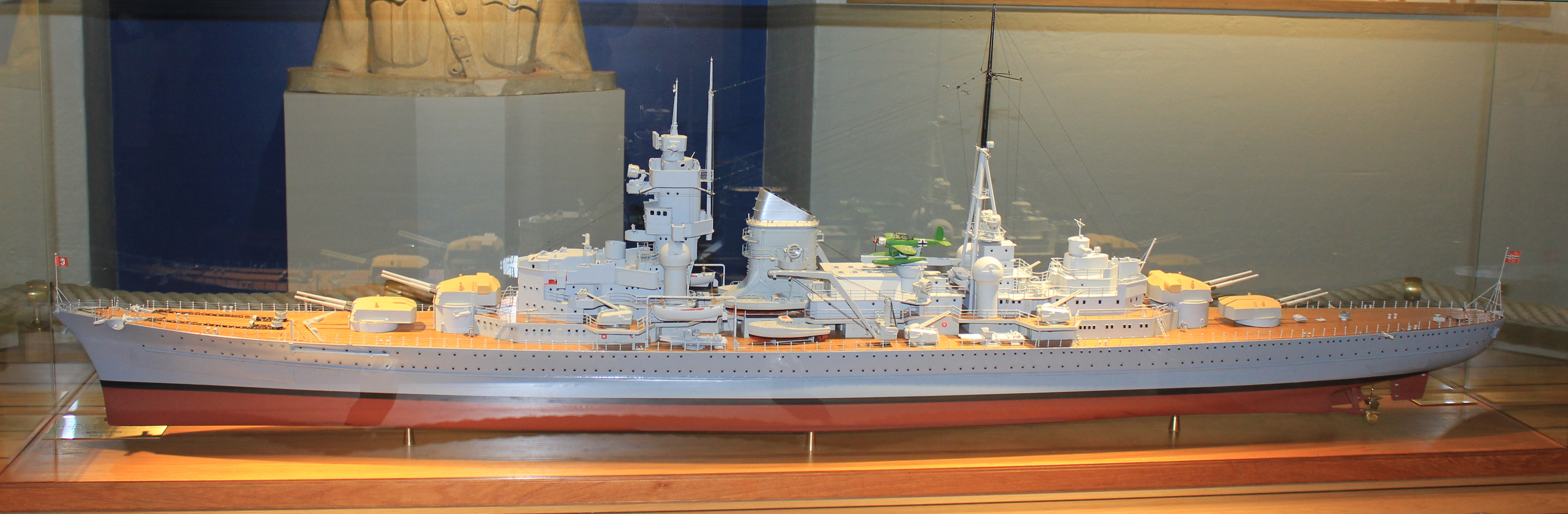 Model of Blücher at the museum of Oscarsborg Fortress in the Oslo Fjord.